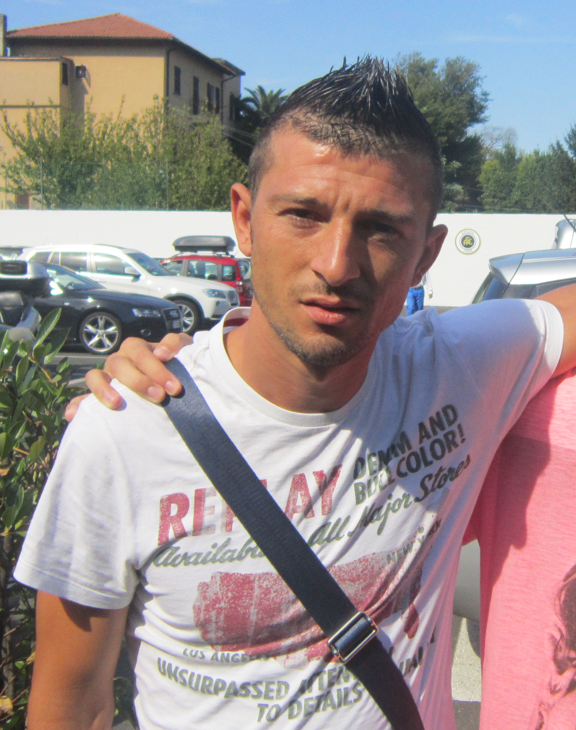 carrozza